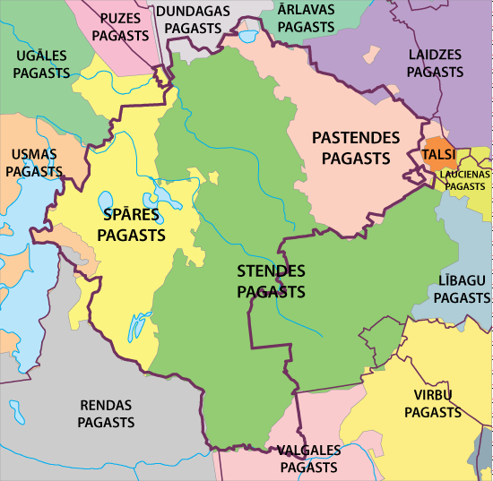 Administrative divisions in 1940 (in color) and in 2009 (in violet) of Ģibuļi parish